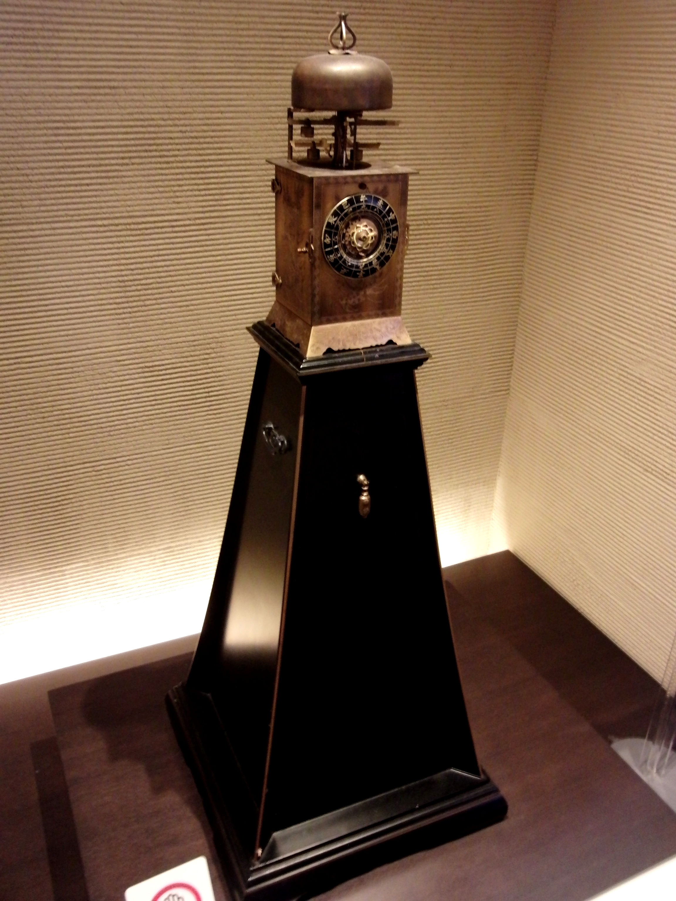 Nicho Tenpu Yagura-dokei (Lantern clock with a double foliot mechanism). One of the Wadokei (Japanese clocks). Mid-Edo period. Exhibit in the National Museum of Nature and Science, Tokyo, Japan.